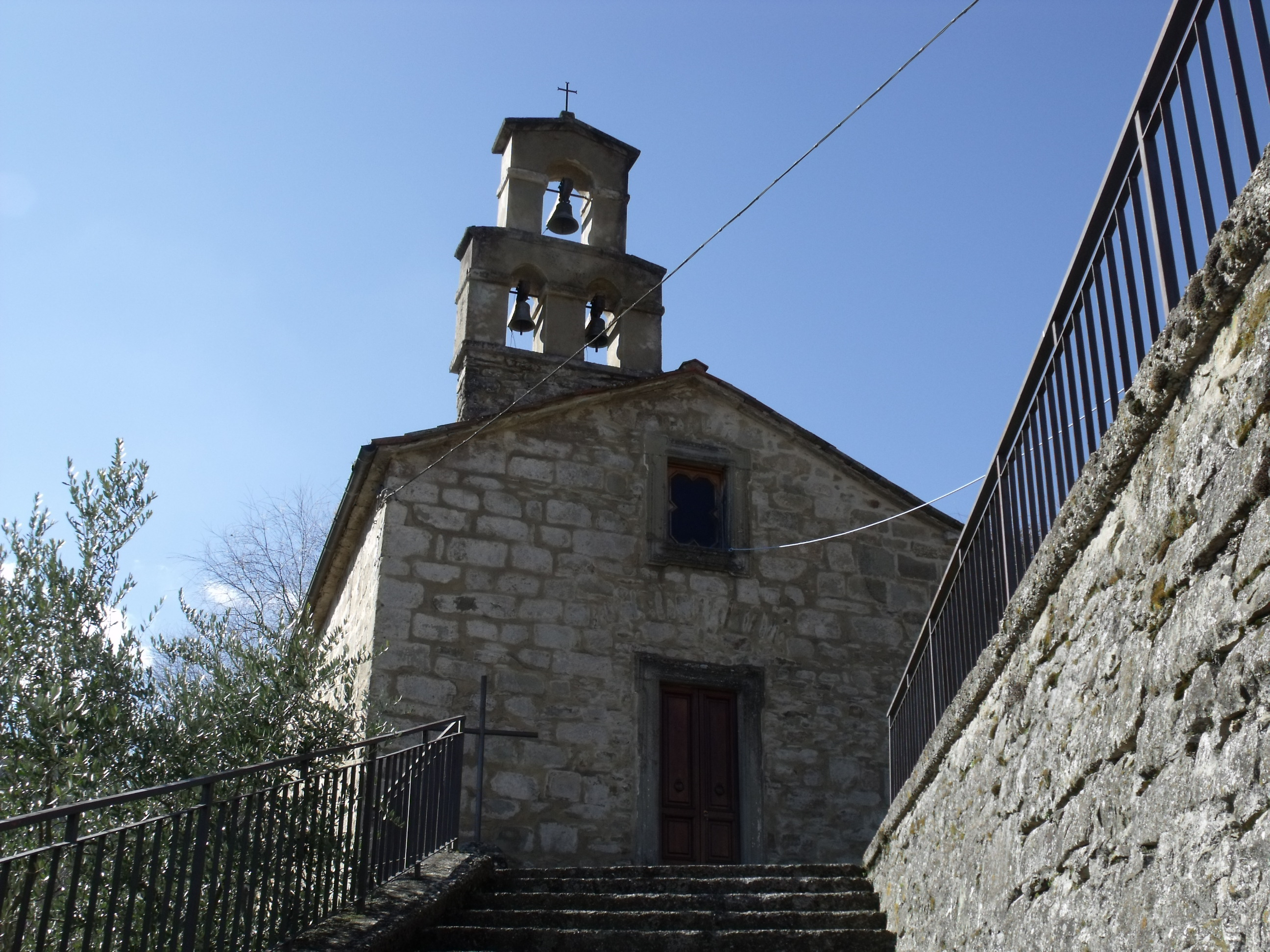 Chiesa (Church) Sant’Antonio in Badia Tega (Ortignano) in Ortignano Raggiolo, Casentino, Province Arezzo, Tuscany, Italy